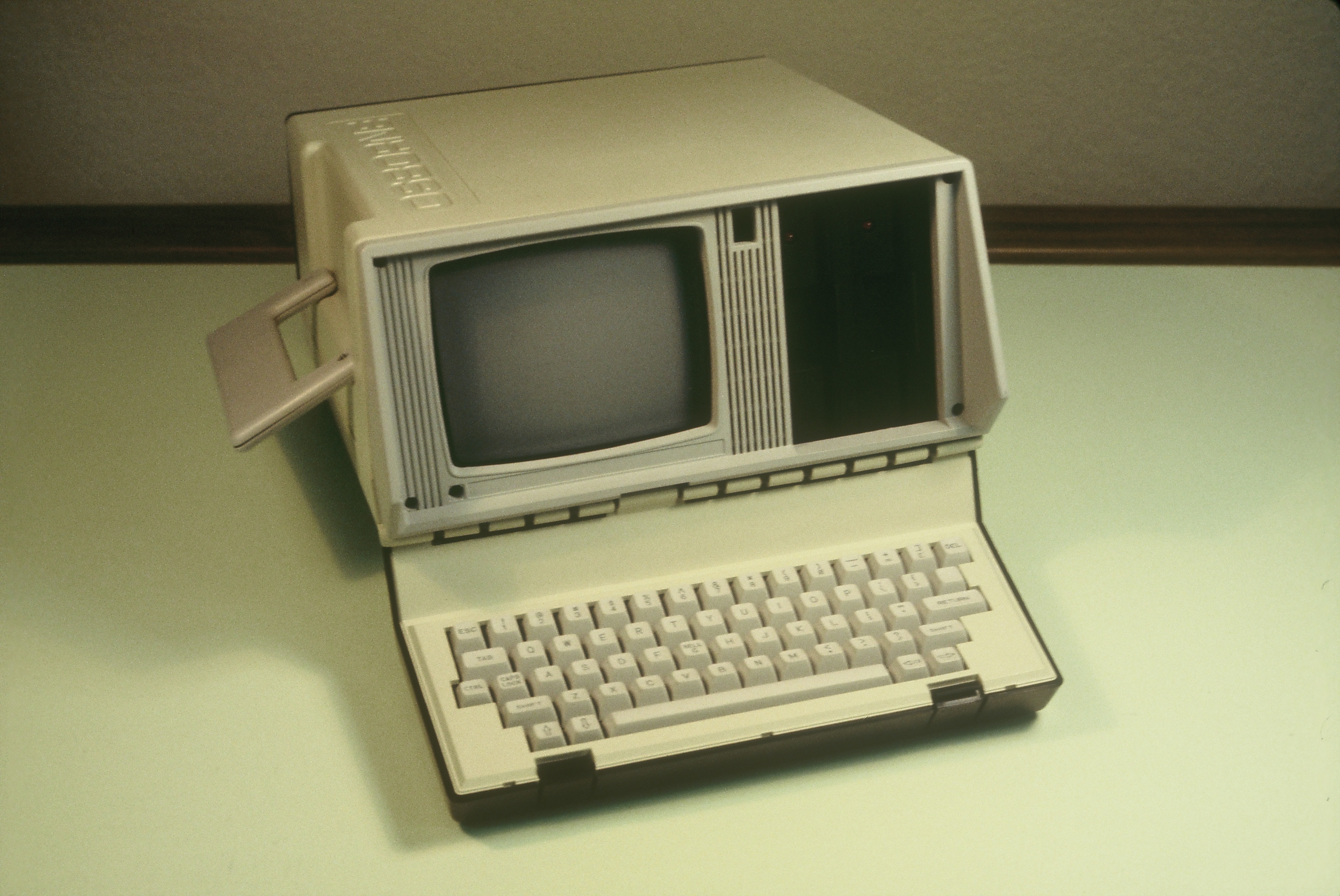 Osborne "Vixen" Prototype (Exterior)